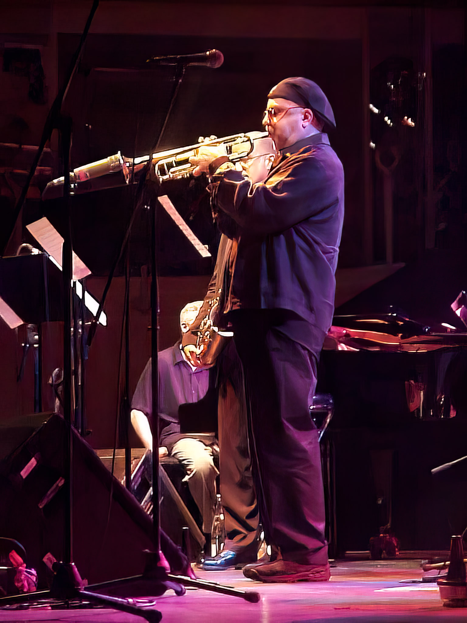 Randy Brecker, Munich, July 2001